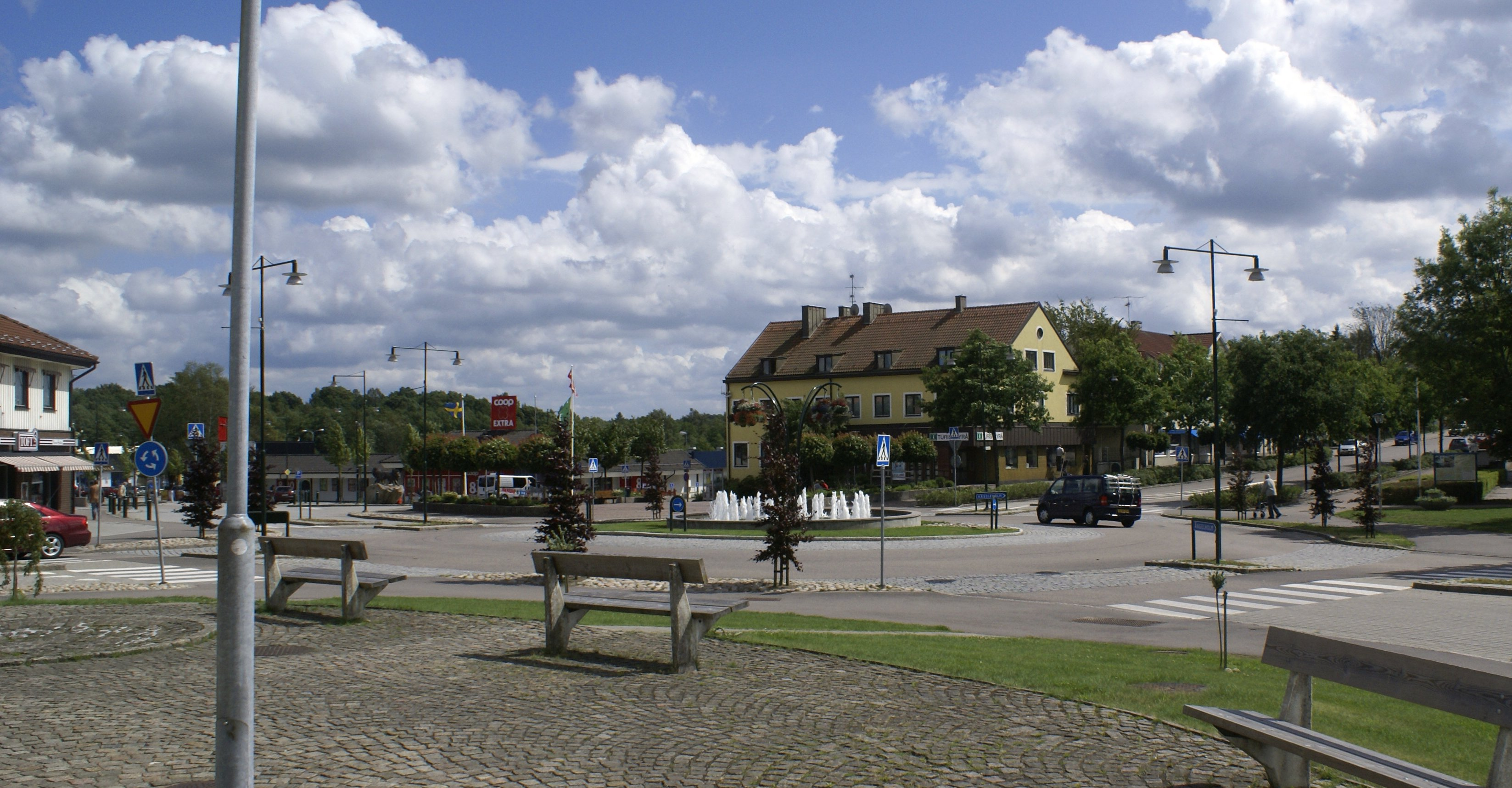 Örkelskit